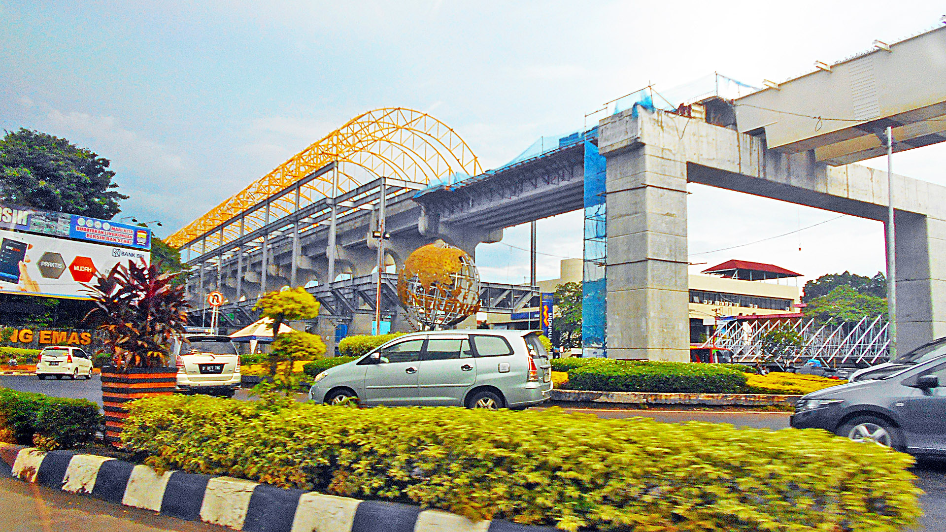 LRT Station near Entrepreneur Monument will be finished on this year.